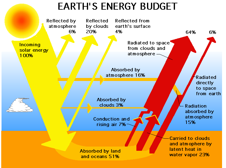 The Earth's Energy Budget chart shows what we know now about the parts of the Earth's temperature controls. All the energy comes from the Sun. An equal amount of energy must go back into space or Earth's temperature will change. The picture shows that clouds reflect more energy than the atmosphere or Earth's surface. Think about how bright clouds can appear -- this is reflected energy. They also radiate more energy. Clouds act like radiators in the atmosphere. They are, however, much colder than a radiator in a building. One thing that we have learned is that clouds can act to either warm or cool the Earth. High clouds are often thin and do not reflect very much. They let lots of the Sun's warmth in. Low clouds are often quite thick and reflect lots of sunlight back to space. You can think of clouds as one thermostat that sets Earth's temperature. If, for example, you make the low clouds a little thicker (which makes them more reflective), the Earth's temperature will drop a little. It would be as if you turned down the thermostat a little.